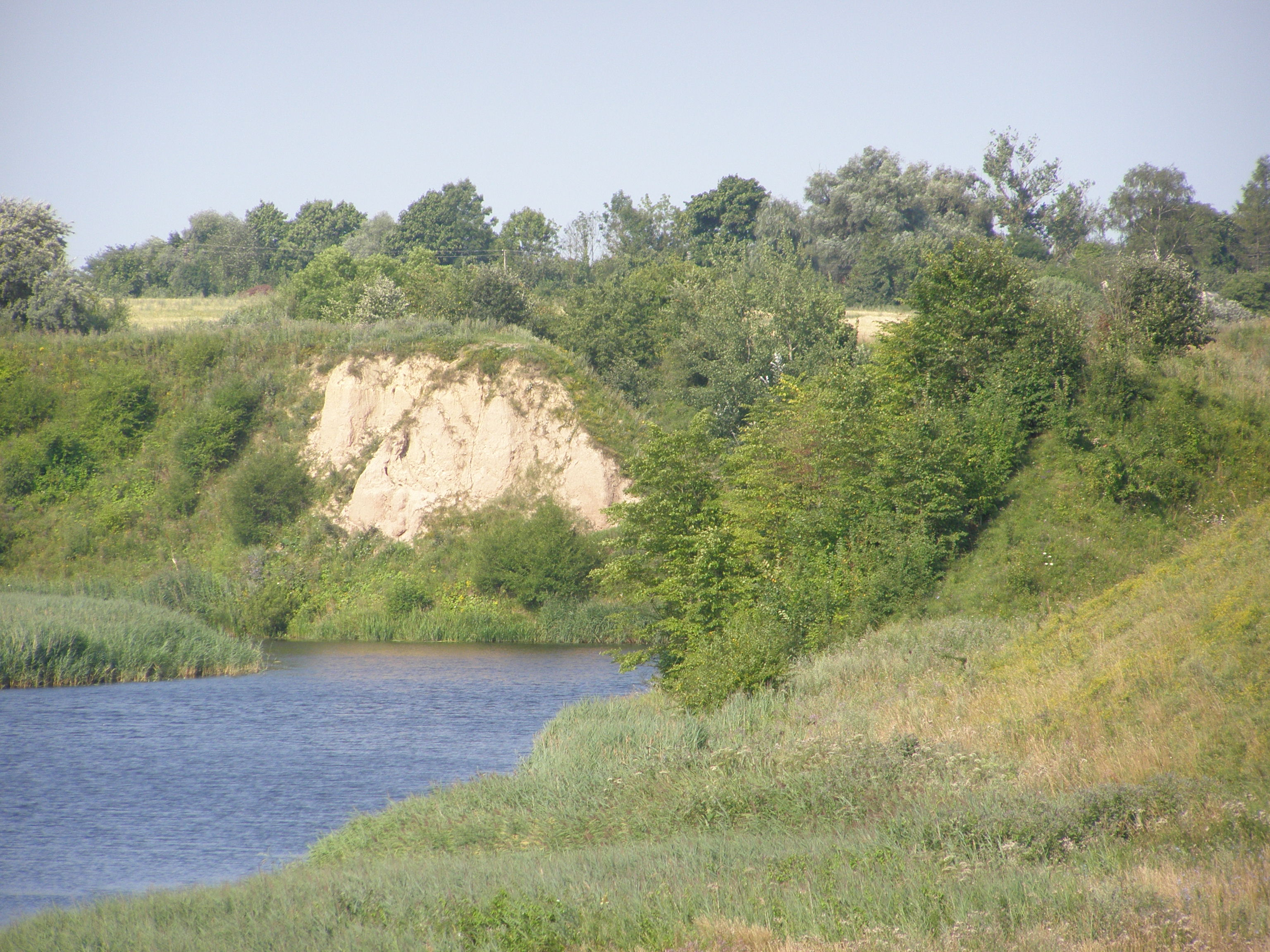 Marijampolė (Meškučiai) hillforts, Marijampolė district, Lithuania